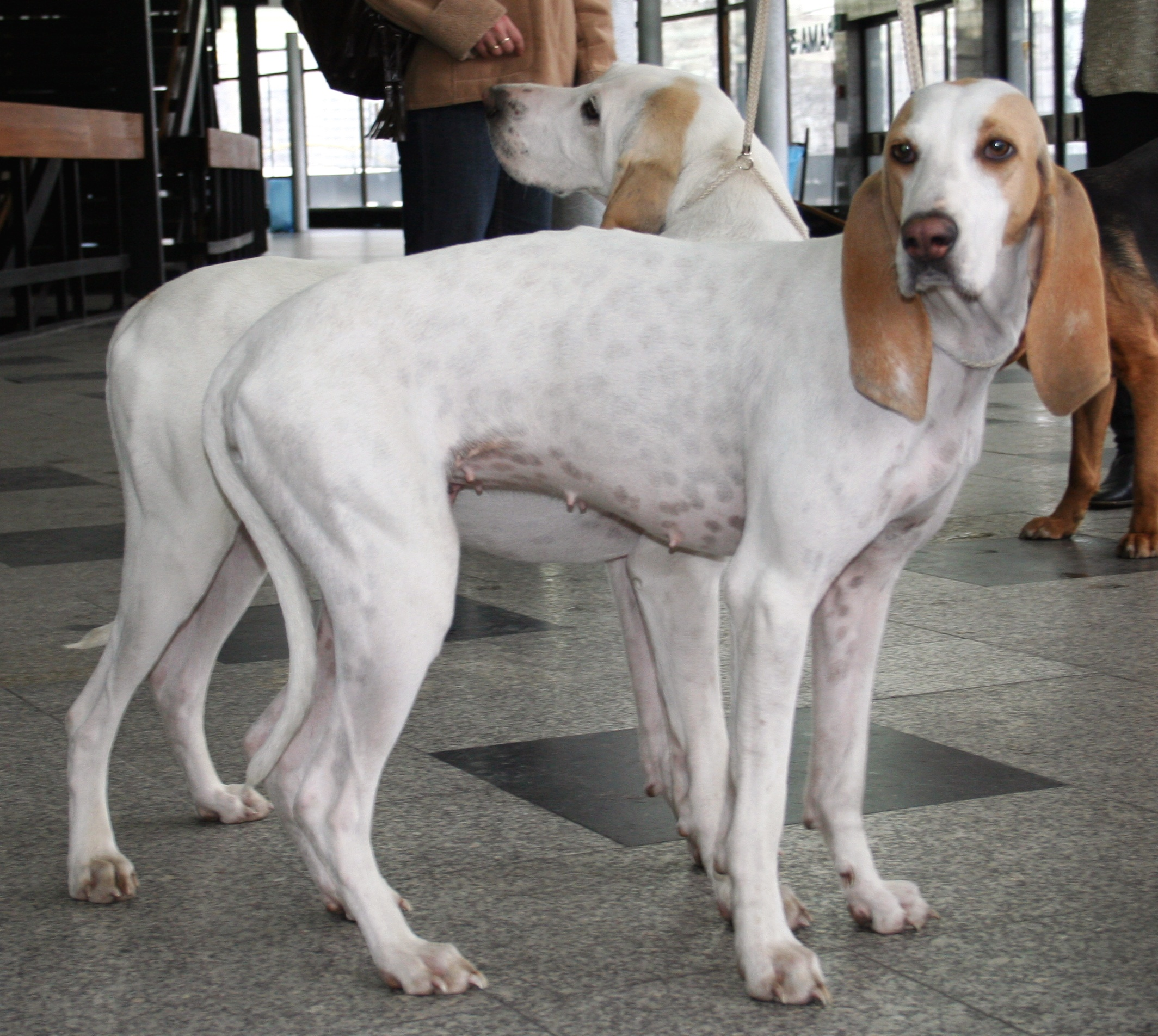 Porcelaine during the international dog show in Katowice, Poland. The dog comes from the Czech kennel "Od Pstruží říčky" FCI. The owner and the breeder is Jana Šmídová. (